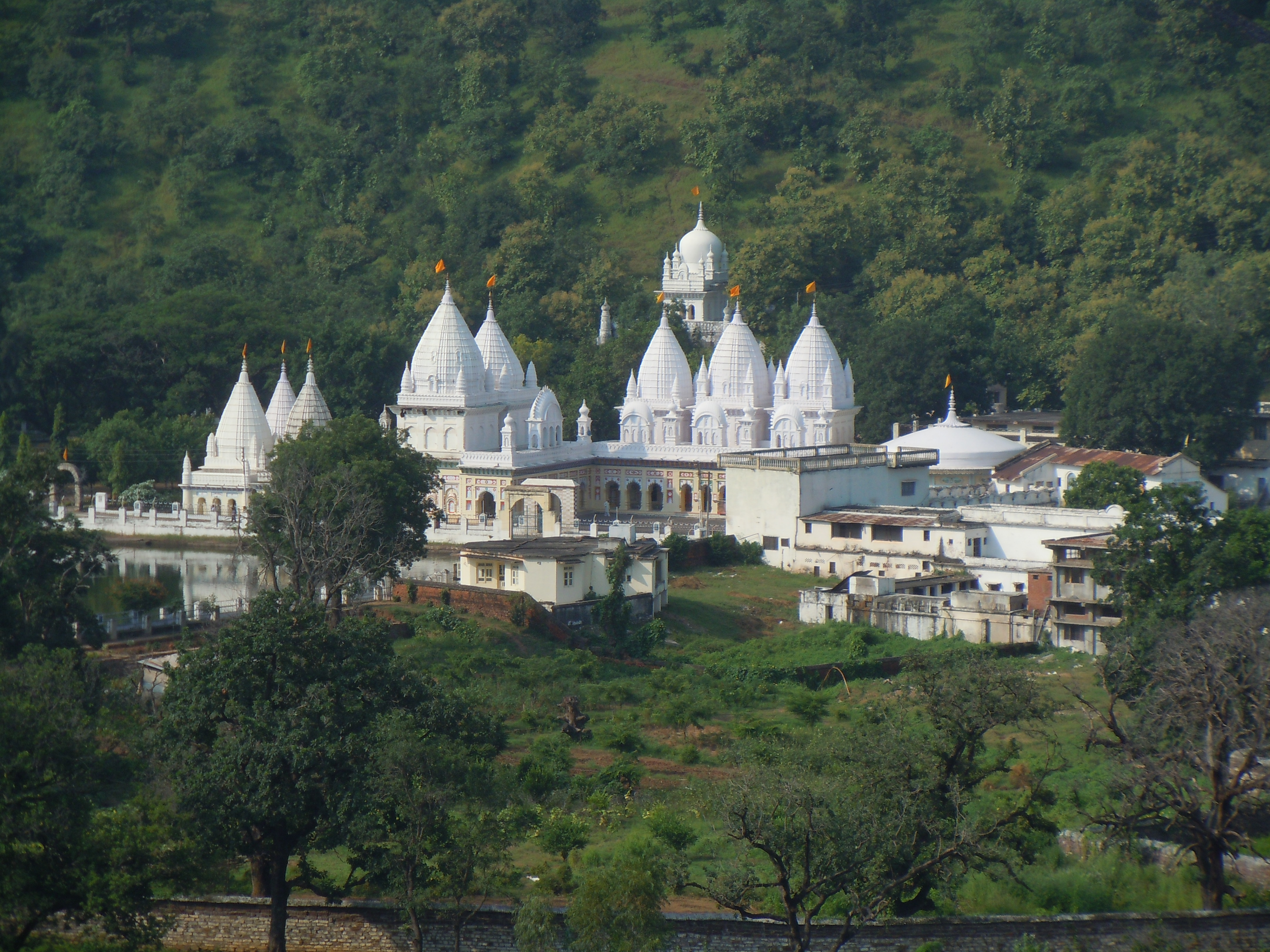 this photo is taken from the height of 1000 ft approx it look so beautiful